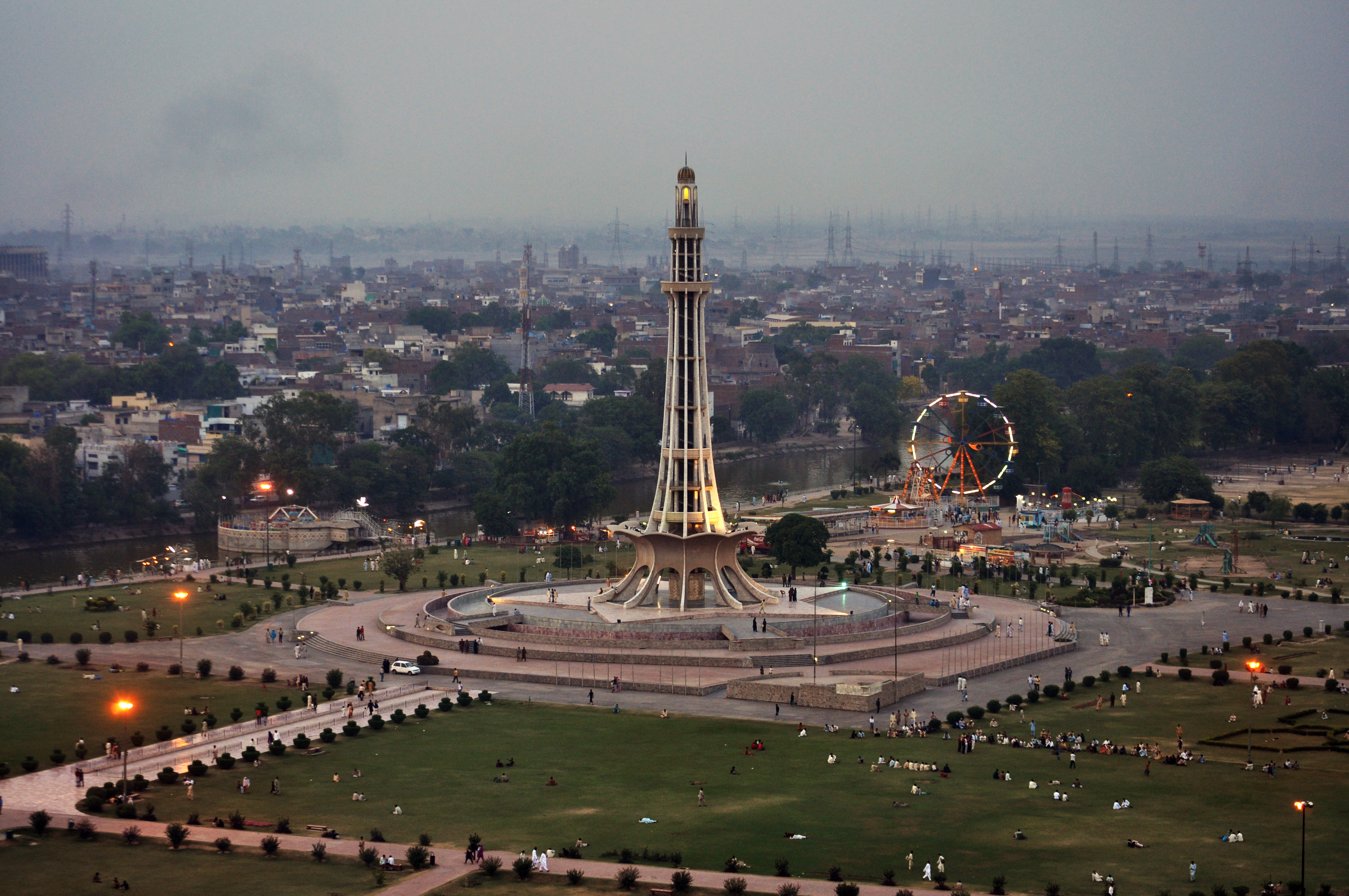 Minar-e-Pakistan This is a photo of a monument in Pakistan identified as the PB-73